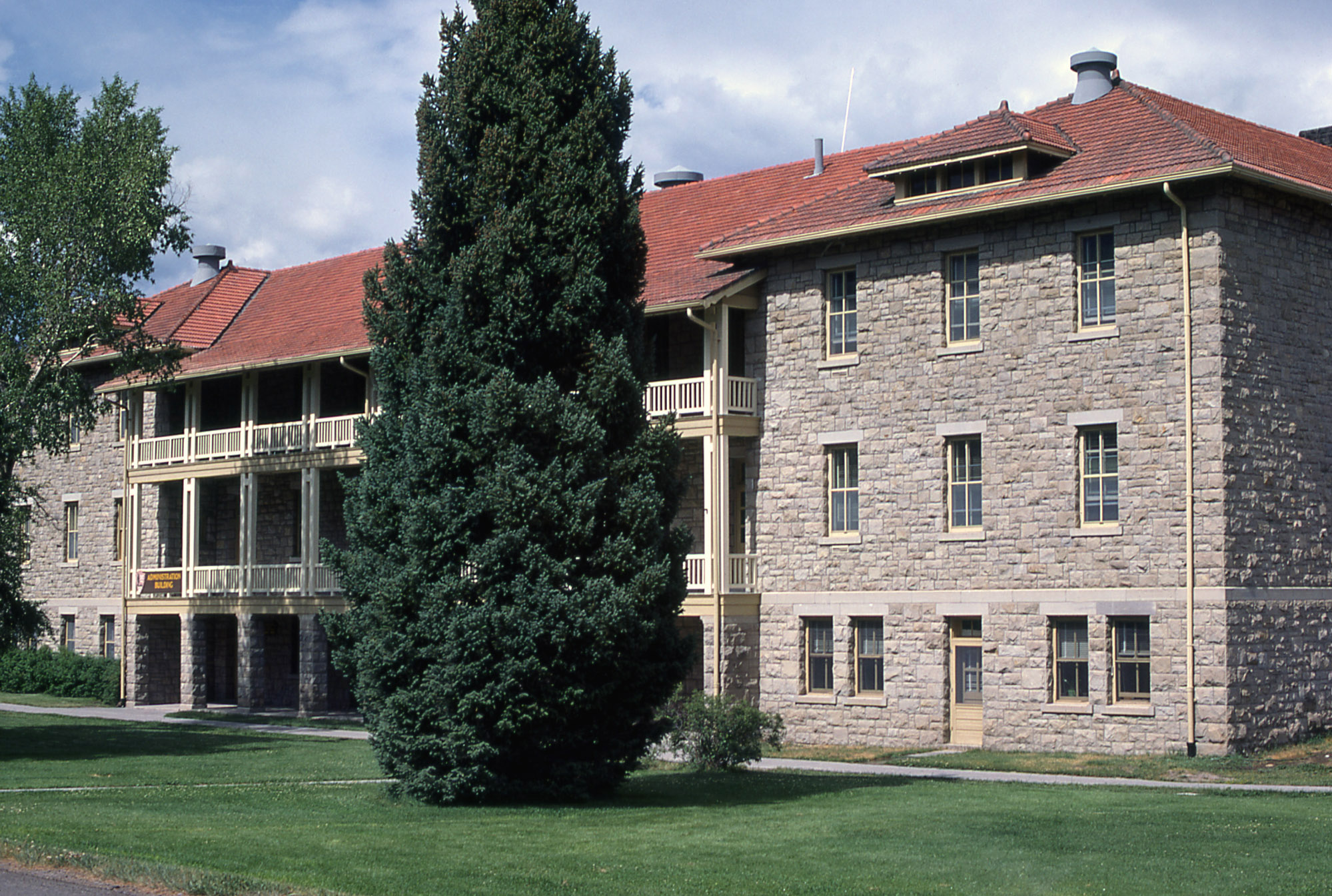 Double Barracks, Fort Yellowstone, Yellowstone National Park, constructed in 1909, currently Yellowstone National Park Headquarters. July 1974